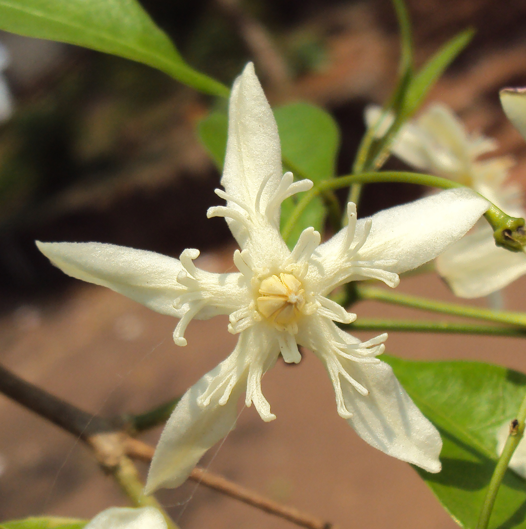 Wrightia tinctoria